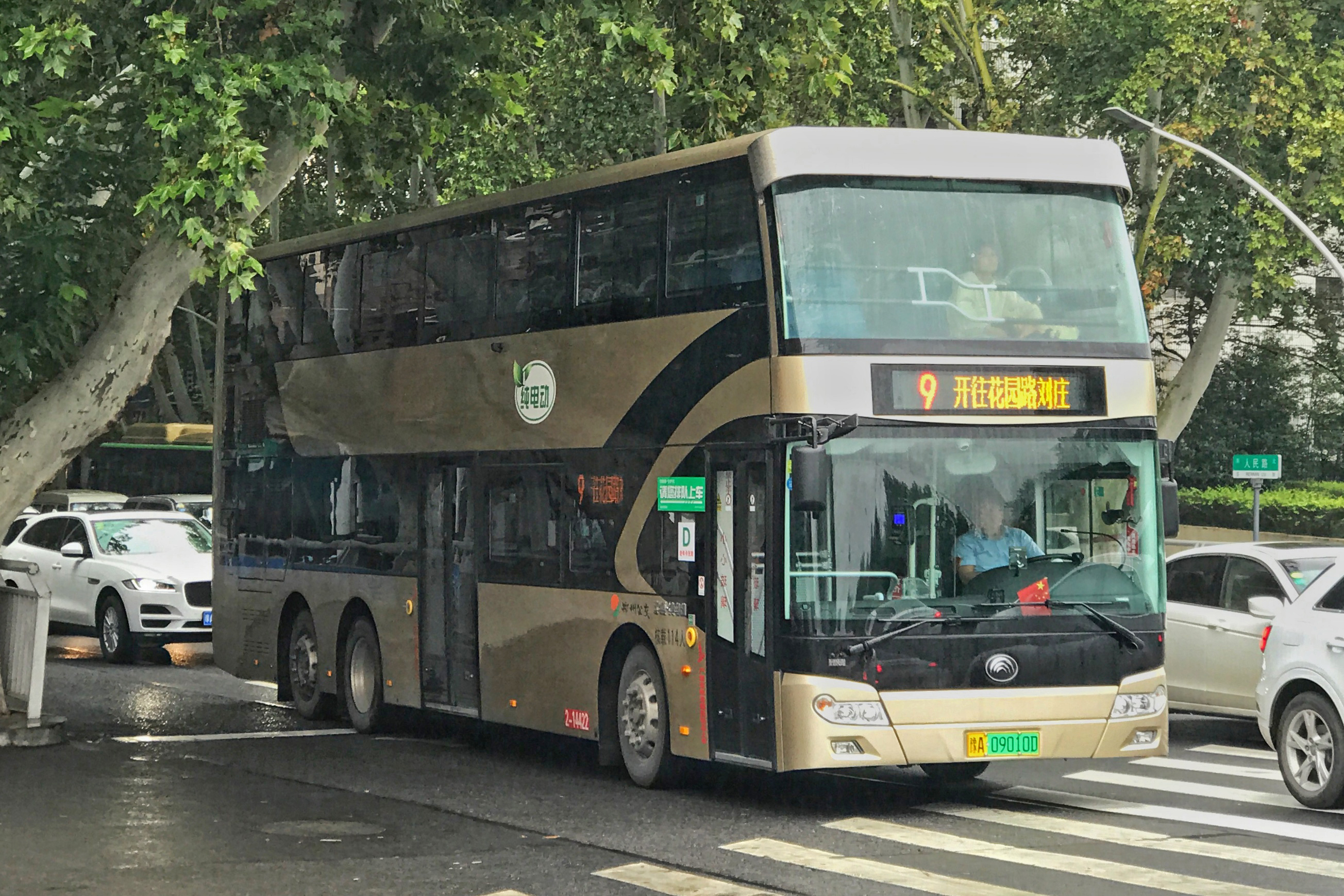 Yutong E12DD on Zhengzhou Bus Route 9